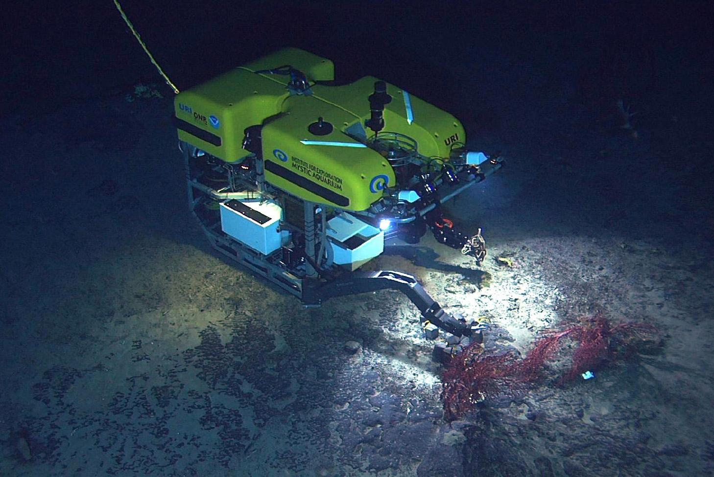 Mountains in the Sea Expedition 2004. The ROV Hercules recovers the basalt recruitment block experiment that was deployed by the DSV Alvin subsmersible in 2003. New England Seamount Chain.